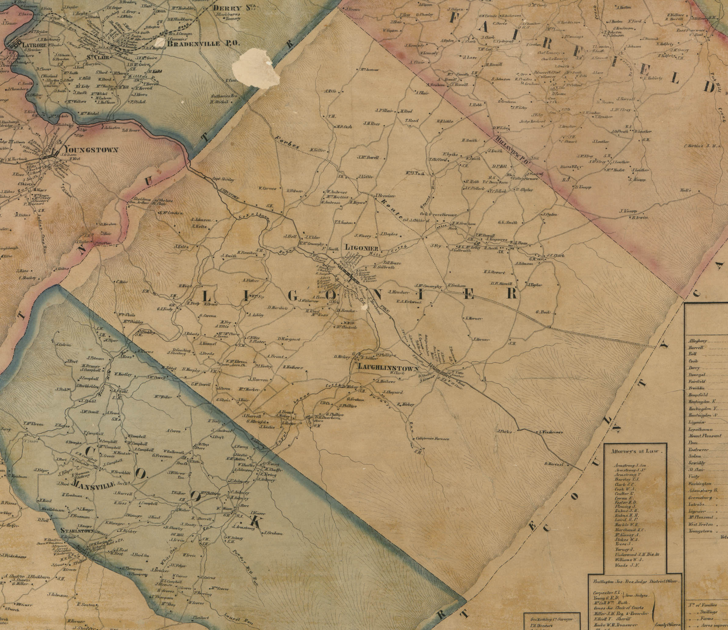 Map of Ligonier Township taken from 1857 William J. Barker map of Westmoreland County, Pennsylvania, available at the Library of Congress website